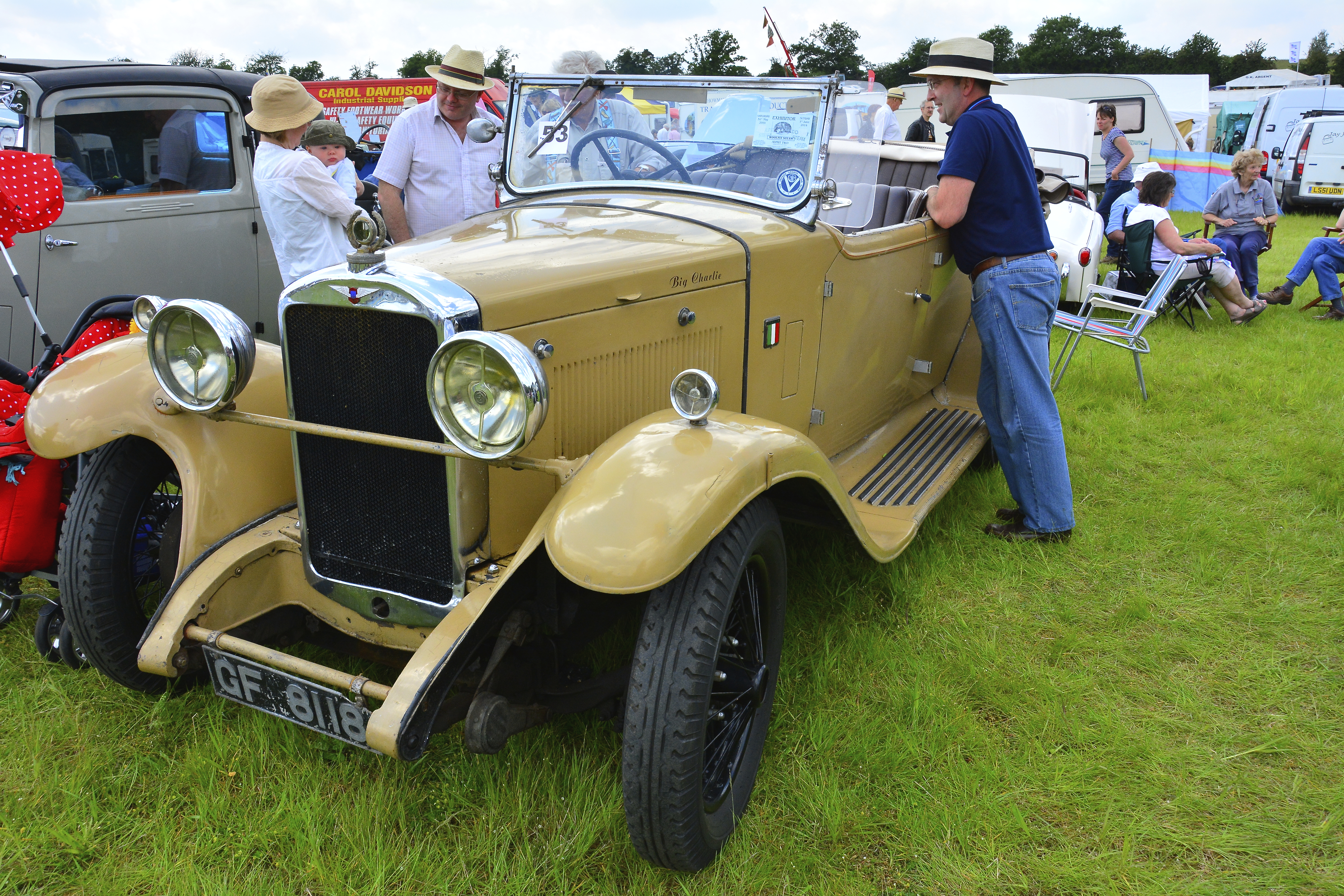 Hillman Tourer 1929 Big Charlie Woolpit Steam Rally, Classic Cars, 1 June 2014(DVLA) first registered 25 March 1930, 1968 cc